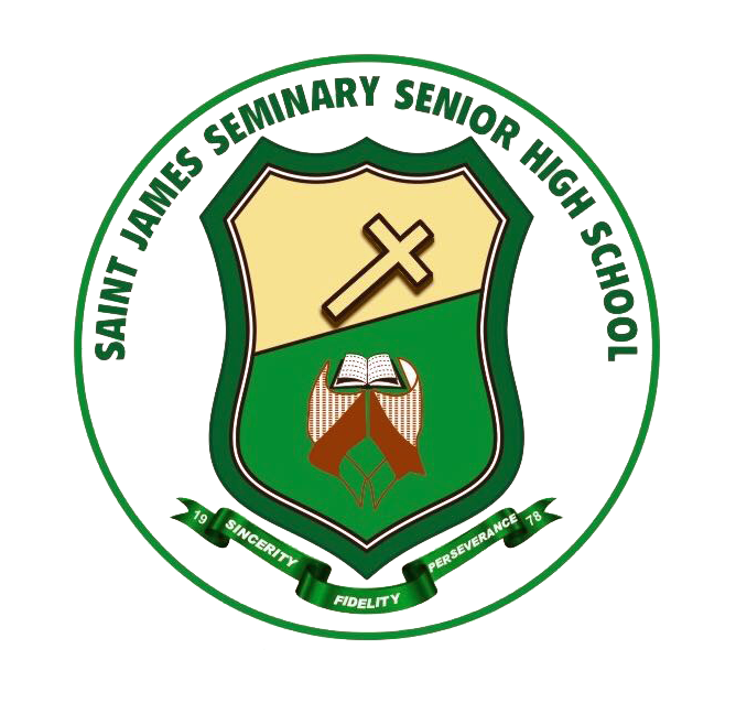 This is the official school crest of St. James Seminary Senior High School in Sunyani, Ghana